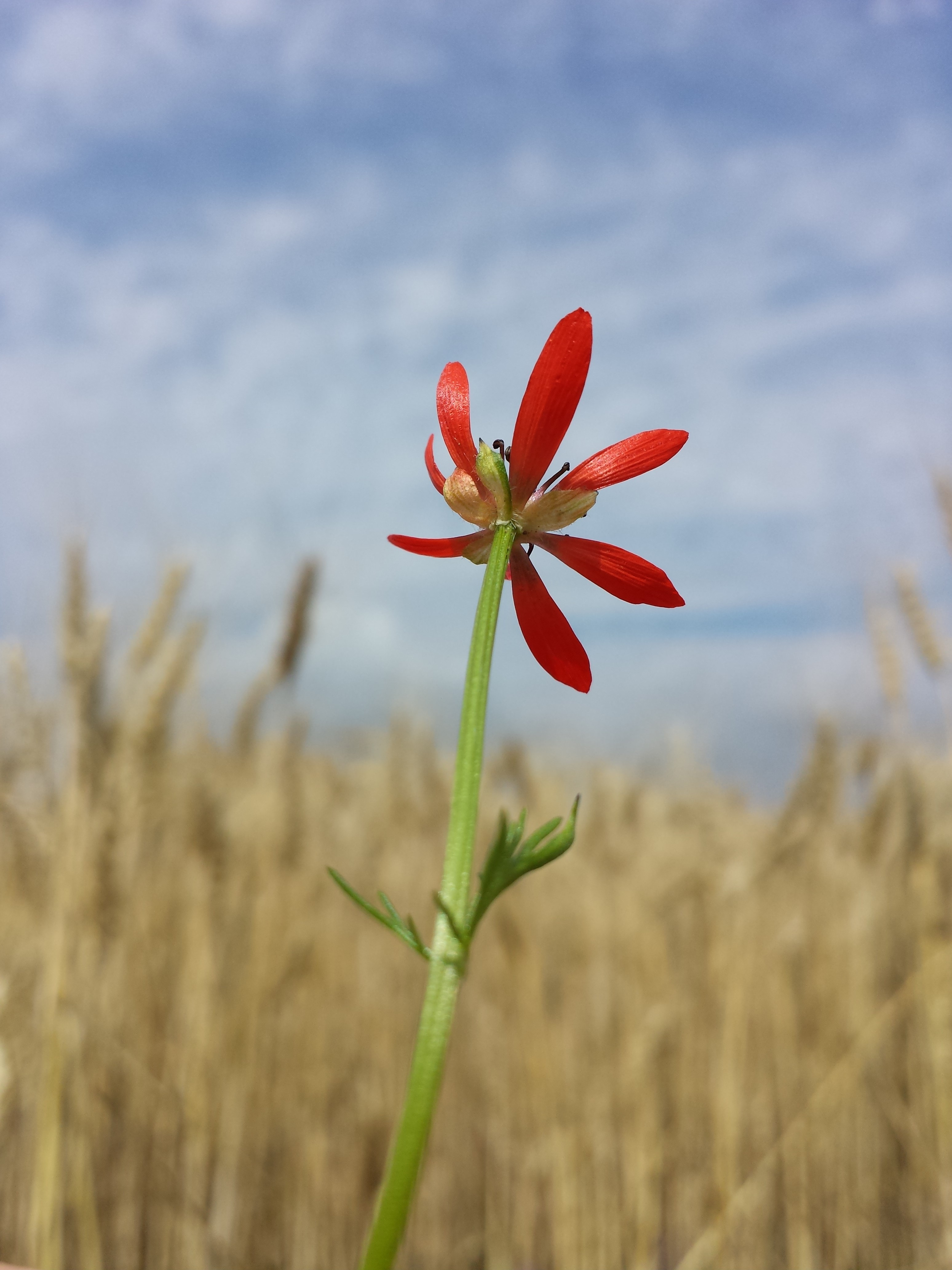 Flower, botoom view, hairy sepals Taxon: Adonis flammea (sensu Fischer et al. EfÖLS 2008 ISBN 978-3-85474-187-9) Location: Steinbacher Heide, Leiser Berge, district Korneuburg, Lower Austria - ca. 450 m a.s.l. Habitat: rocky grainfield (limestone)